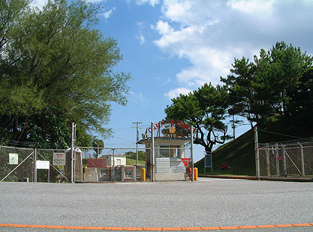 Camp Schwab Gate 2